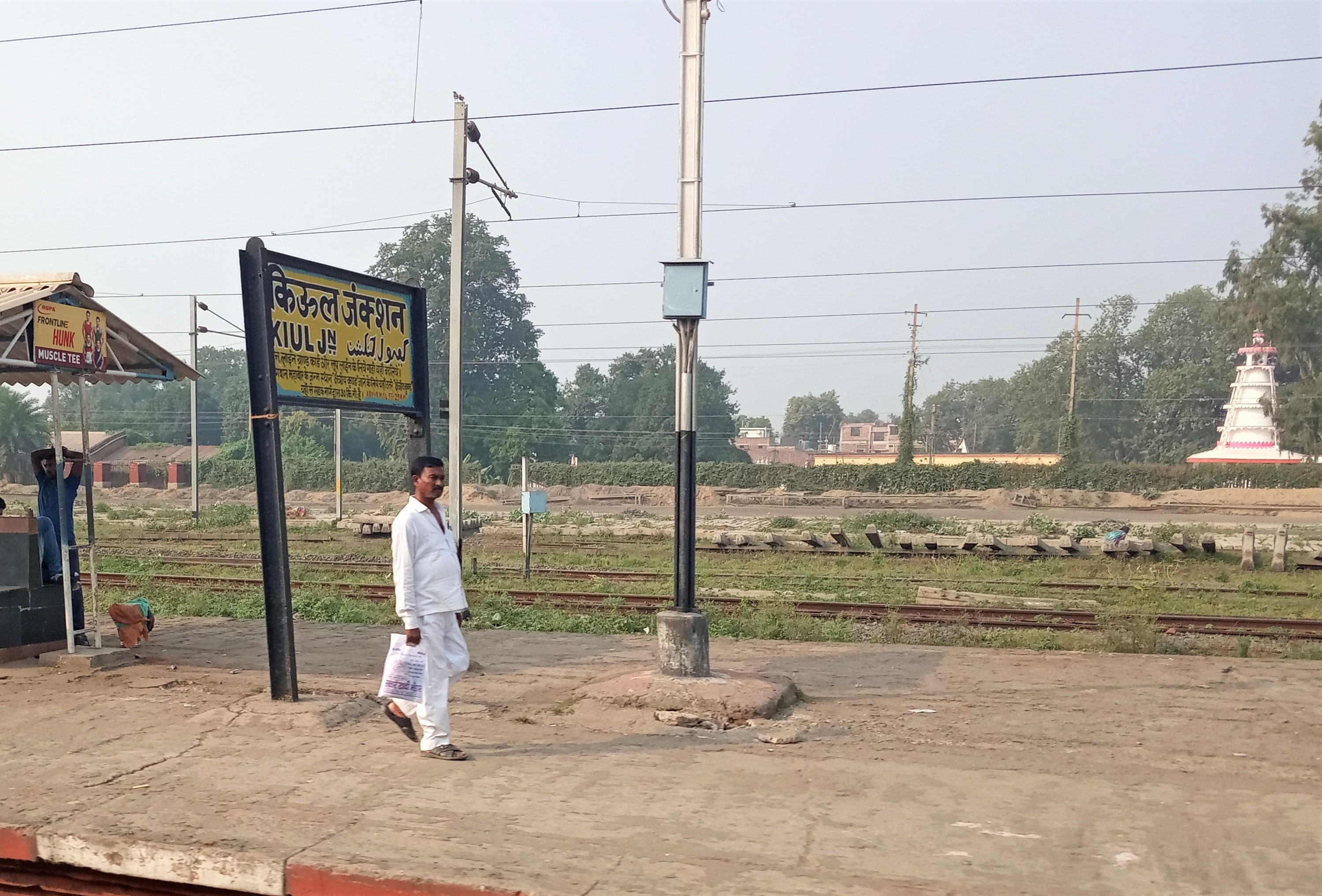 Kiul Junction railway station